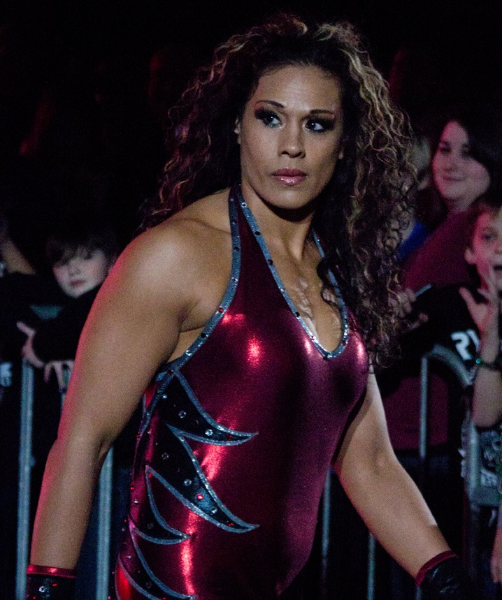 Tamina during a WWE house show on February 2, 2013 in Montgomery, Alabama.